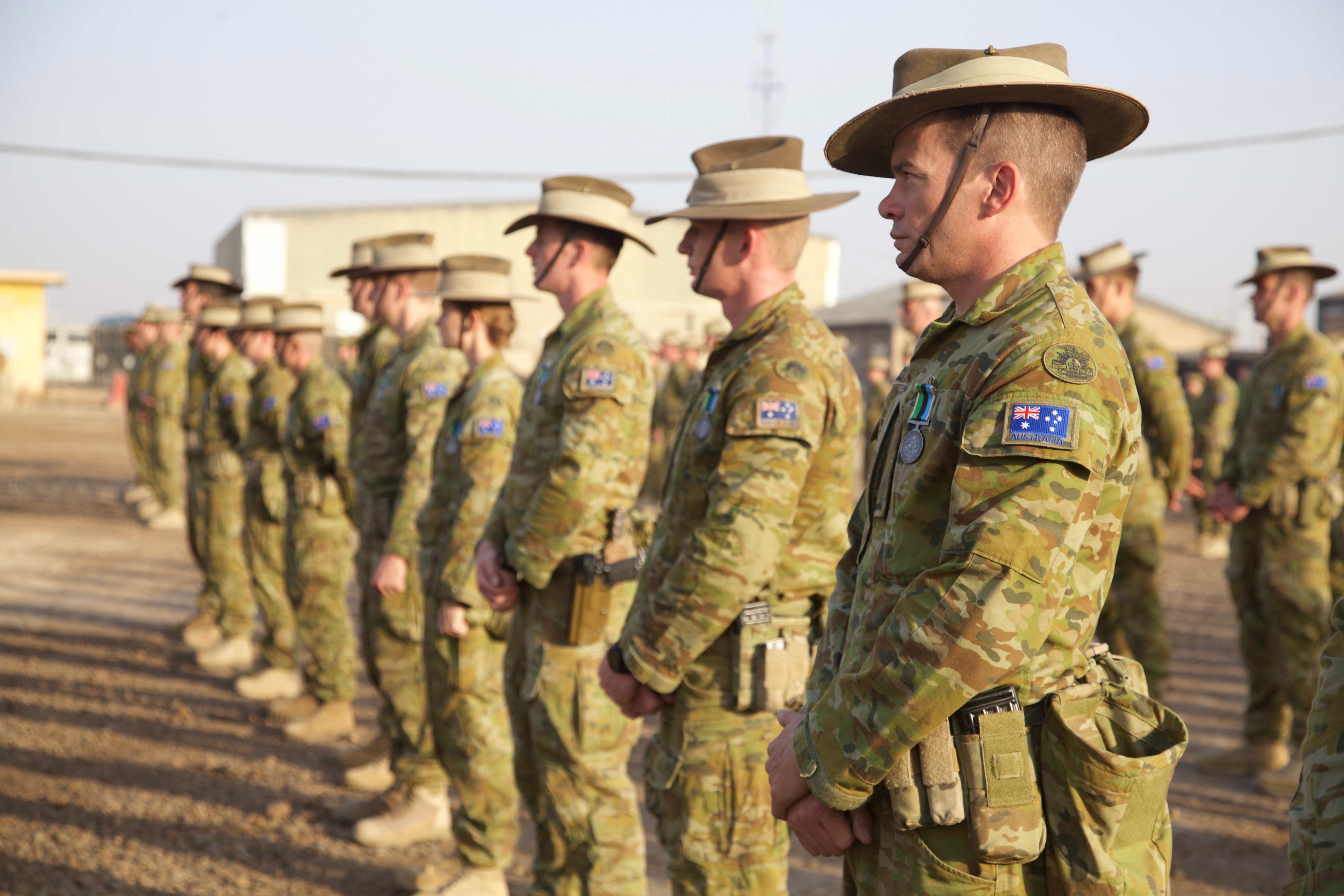 Australian soldiers, deployed in support of Combined Joint Task Force – Operation Inherent Resolve, attend a medals parade at Camp Taji, Iraq, Nov. 15, 2017. Camp Taji is one of four CJTF-OIR building partner capacity locations dedicated to training partner forces and enhancing their effectiveness on the battlefield. CJTF-OIR is the global Coalition to defeat ISIS in Iraq and Syria. (U.S. Army photo by Cpl. Rachel Diehm)